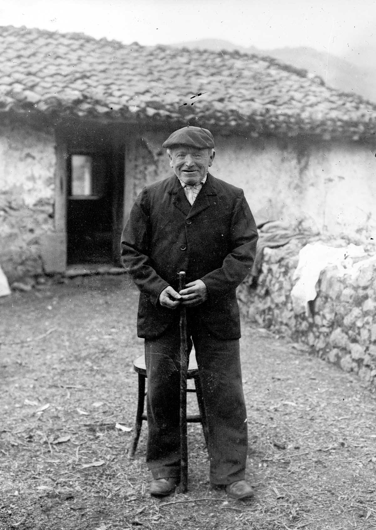 The "Bertsolari" Pello Errota in front of his farm.